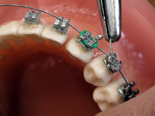 Brackets for orthodontics. Connecting the arch-wire on brackets with wire. Also note the bracket that has an extra knob, to mount elastic bounds from upper to lower jaw, to press the tooth down (inwards). The photo was taken the 23rd December 2005 by Håkan Svensson (Xauxa), on a plastic model.